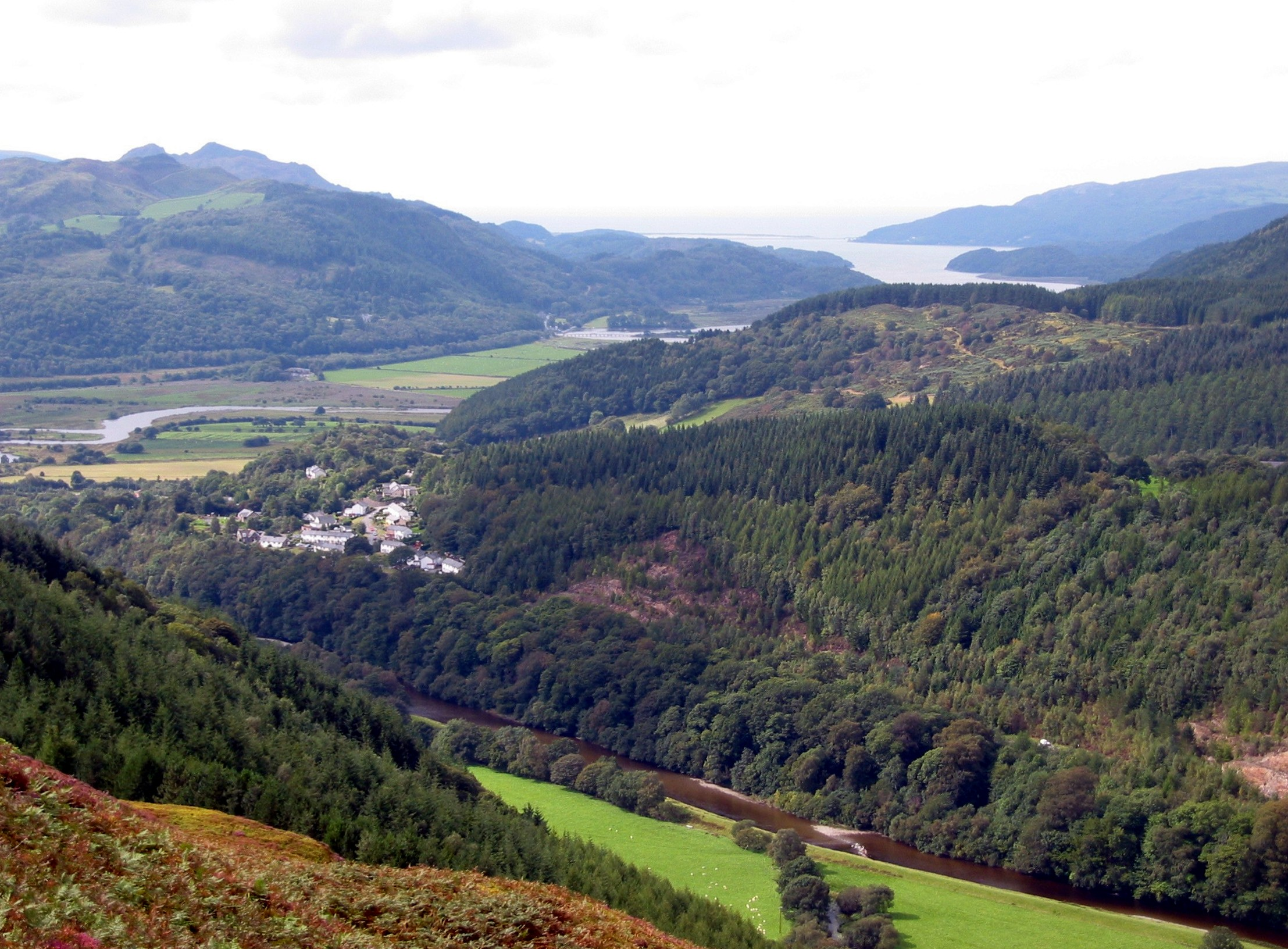 Own work, the Afon Mawddach, a view westwards to Barmouth Bay. Shropman 21:29, 17 February 2007 (UTC)